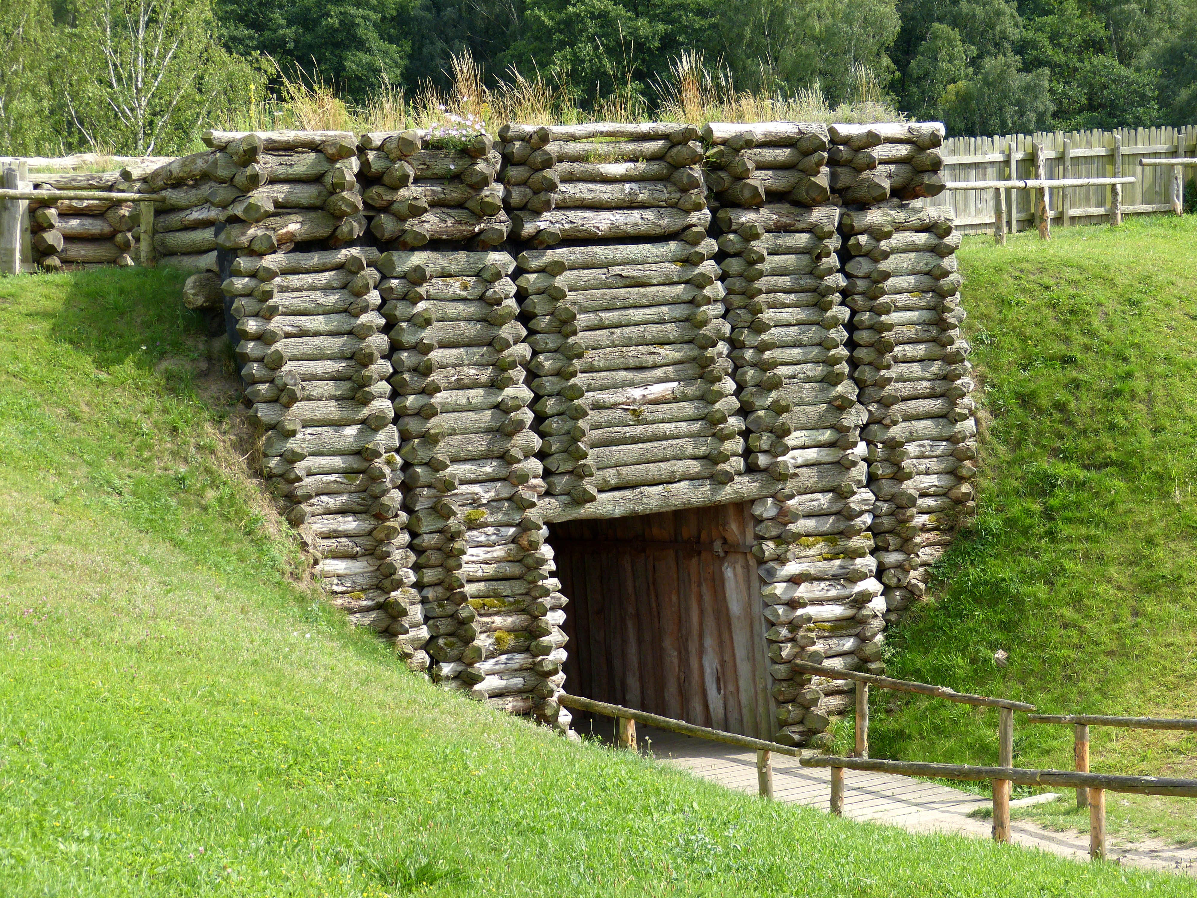 Groß Raden ( Mecklenburg ). Reconstruction of a Slavic settlement: Gord ( 10th century.) - Wooden tunnel gate ( interior ).